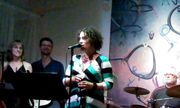 Alison Faith Levy performing as part of Game Theory in a concert at Shine, Sacramento, CA, on July 20, 2013. Left to right: Nancy Becker, Fred Juhos, Alison Faith Levy, Dave Gill.